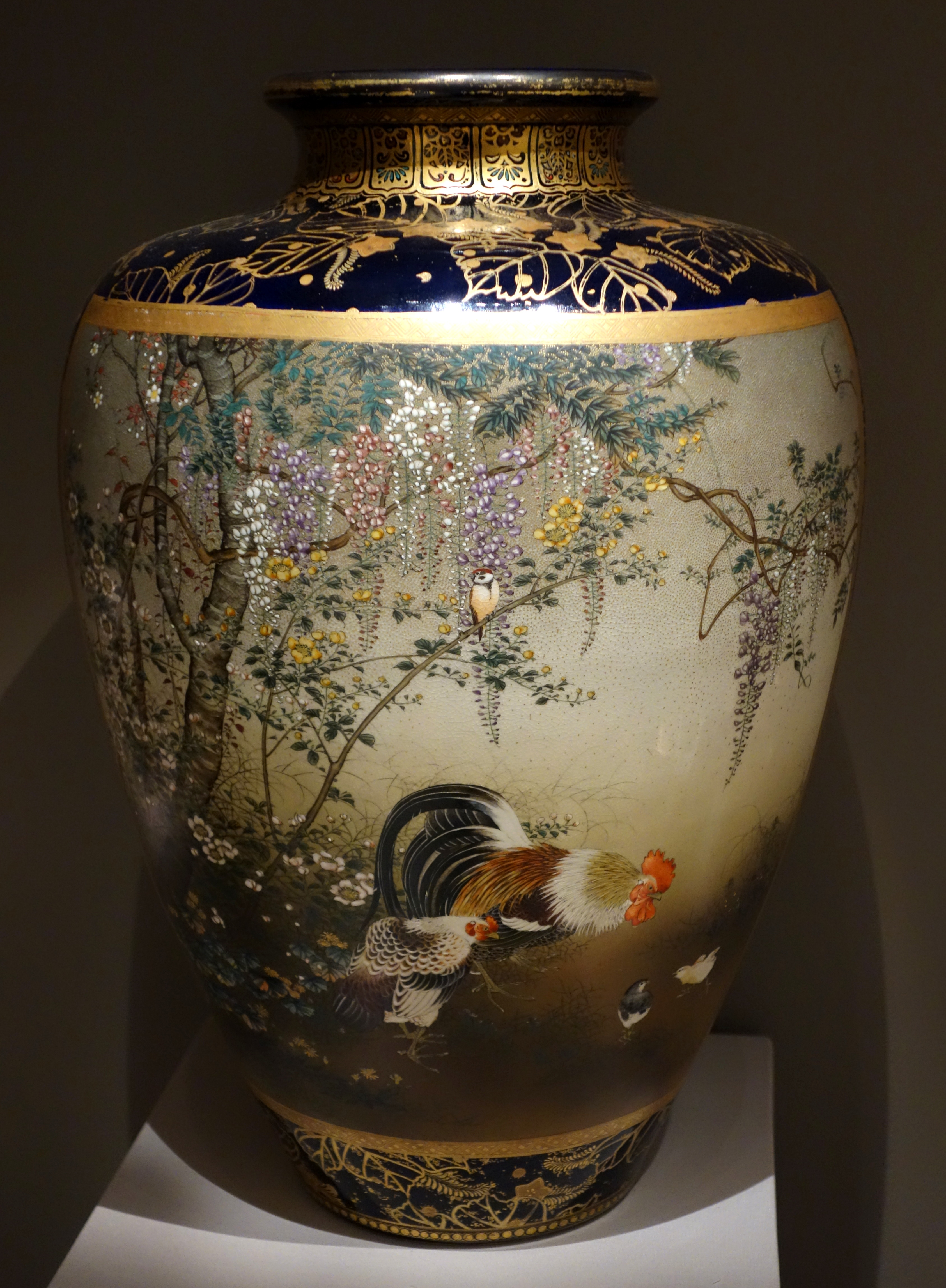 Exhibit in the Chazen Museum of Art, University of Wisconsin-Madison, Madison, Wisconsin, USA. This artwork is old enough so that it is in the public domain.